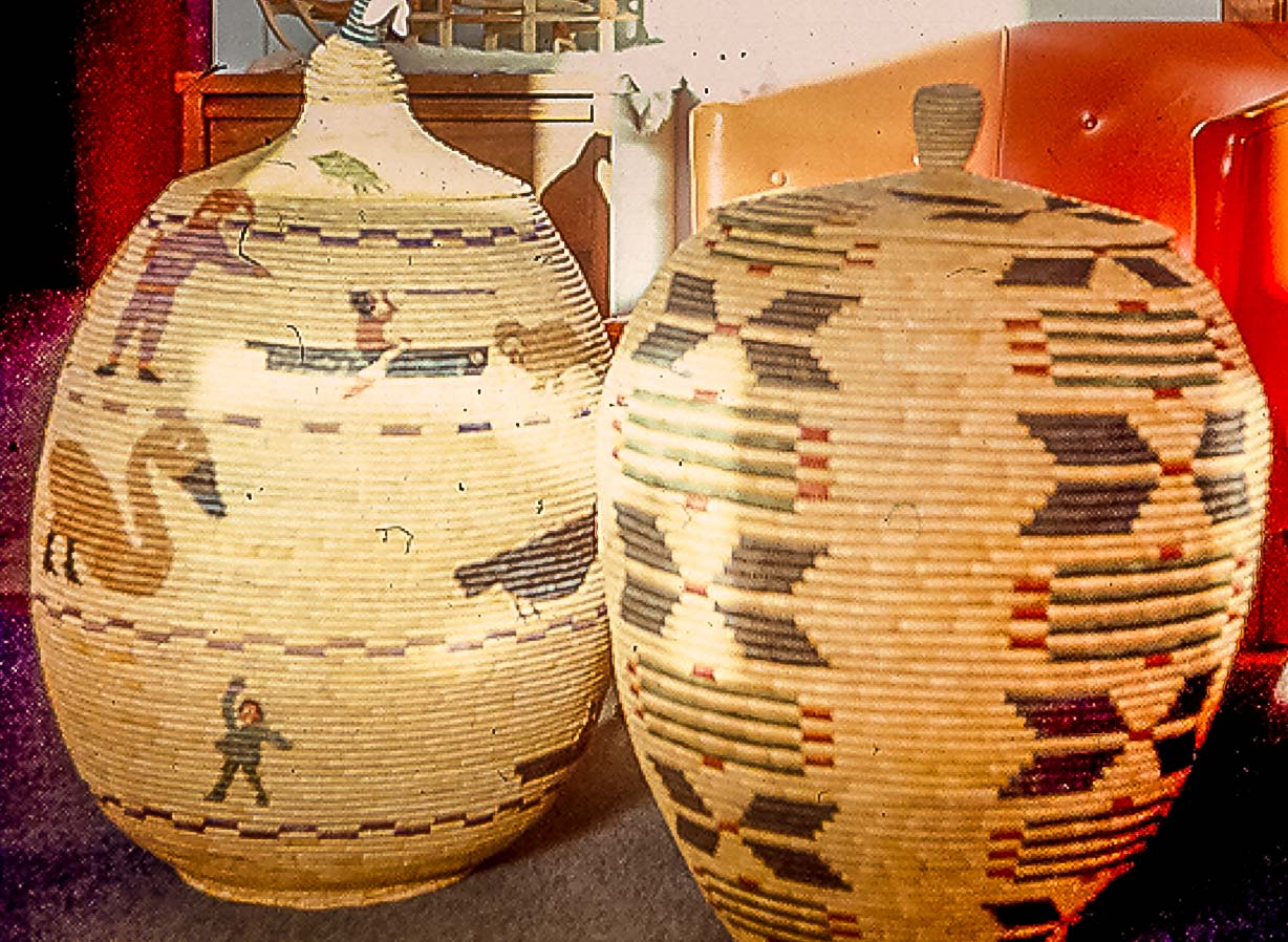 Baskets from Hooper Bay, Alaska